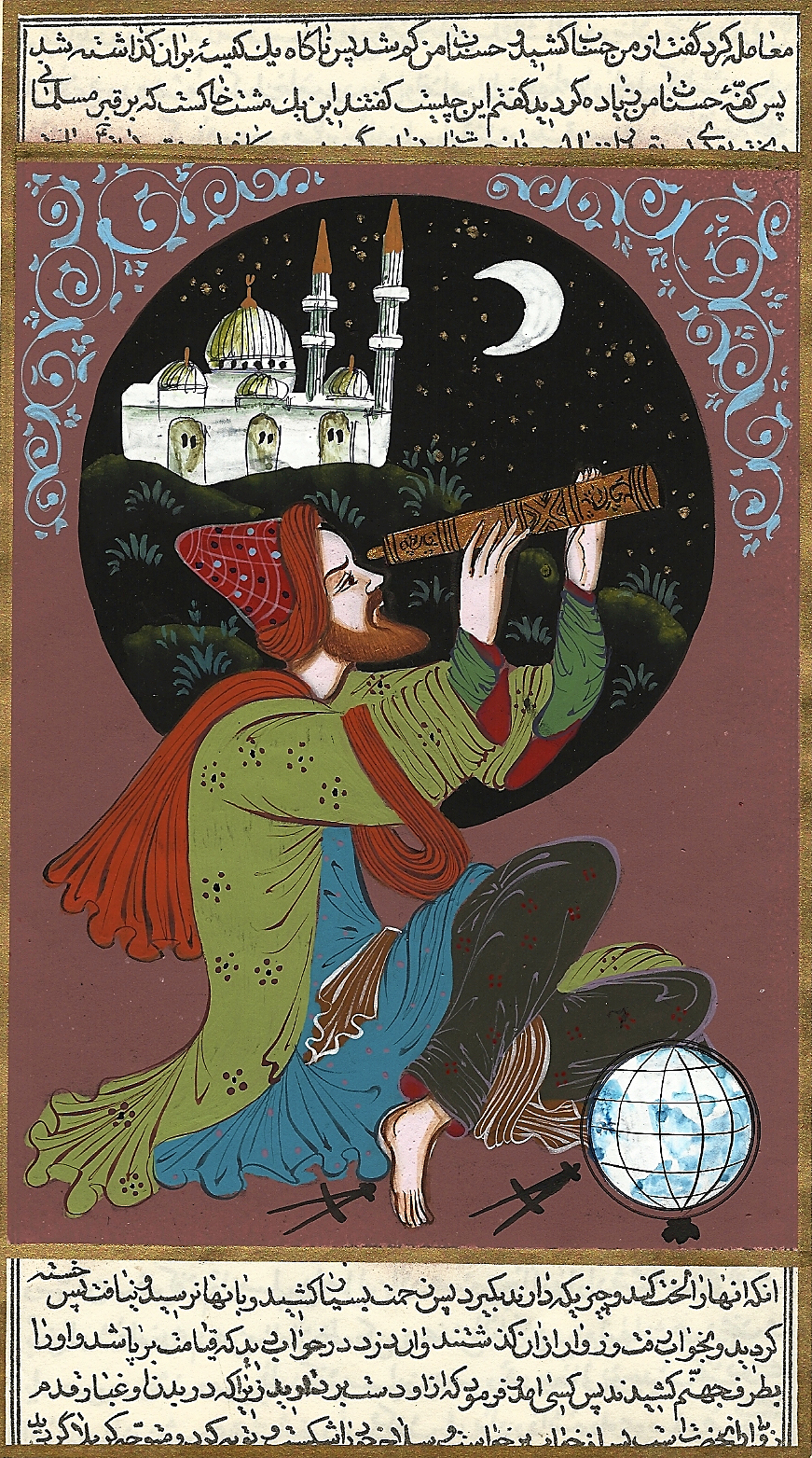 Scanned antique book page purchased from the old book bazaar in Istanbul, Turkey. Hand painted image depicts an Islamic astronomer.